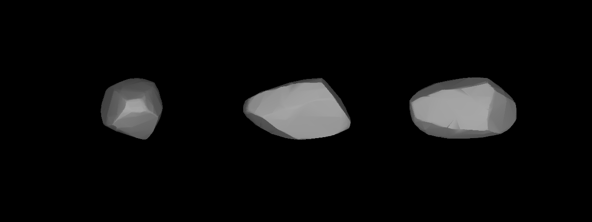 A three-dimensional model of 753 Tiflis that was computed using light curve inversion techniques.